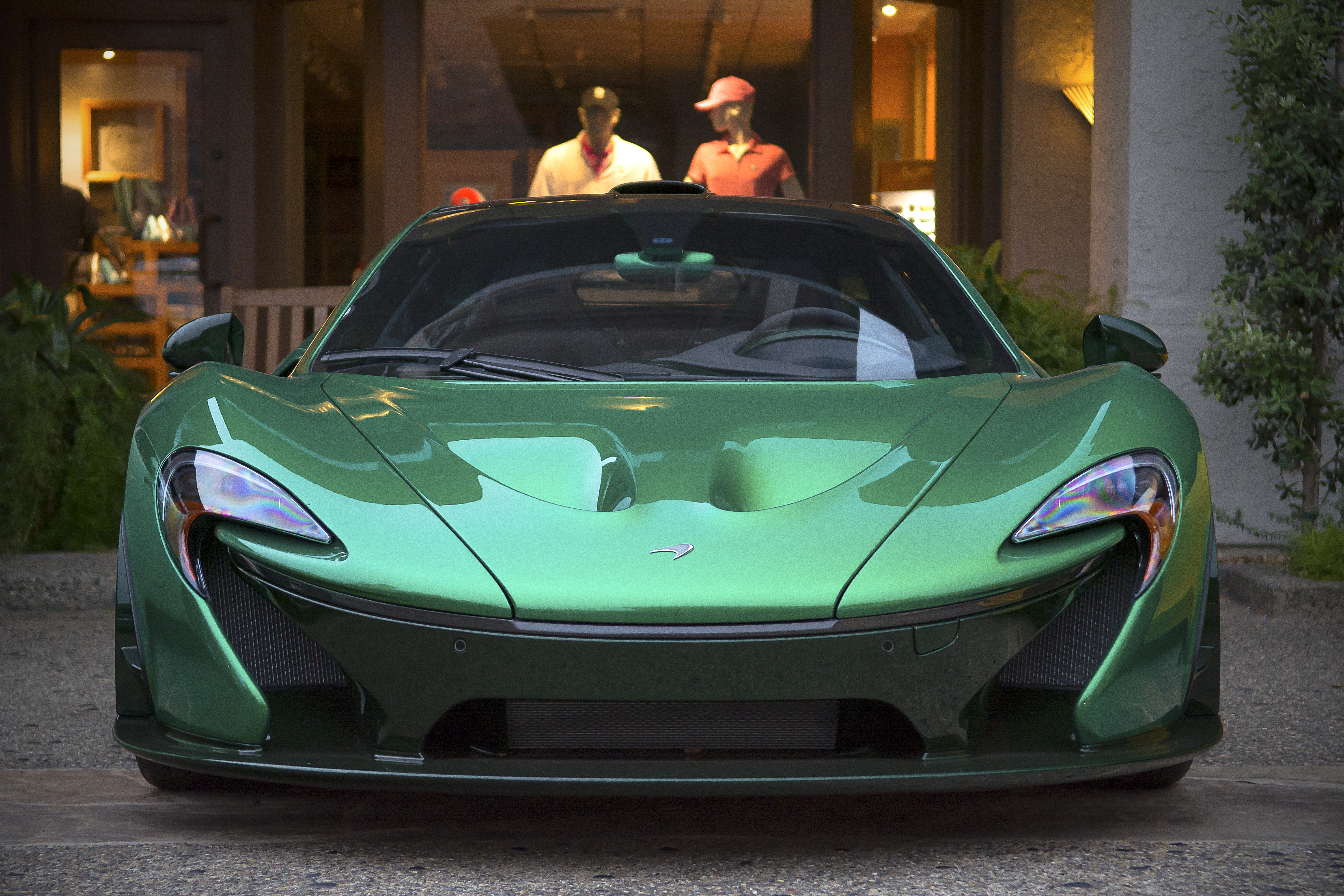 Michael Fux's Green McLaren P1 spotted at The Inn at Spanish Bay (Pebble Beach) for Car Week 2014. (cc) Creative Commons Personal and Commercial with Attribution. If you use this photo make sure you source with a link back to my site at